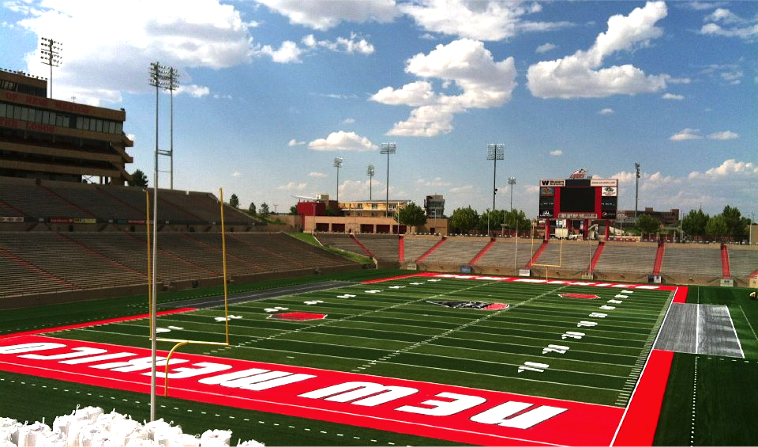 The new FieldTurf field (Branch Field) at the University Stadium of the University of New Mexico.